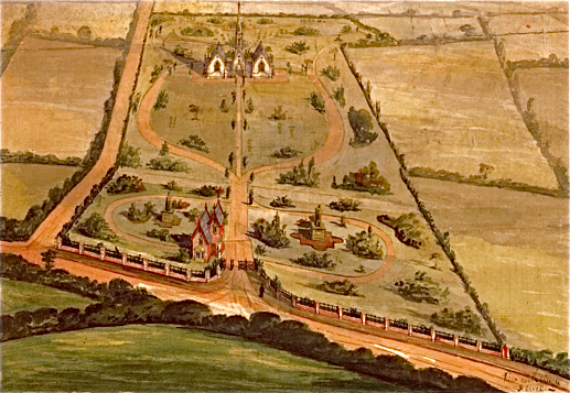 London Road Cemetery Newark 1855 by Bellamy and Hardy